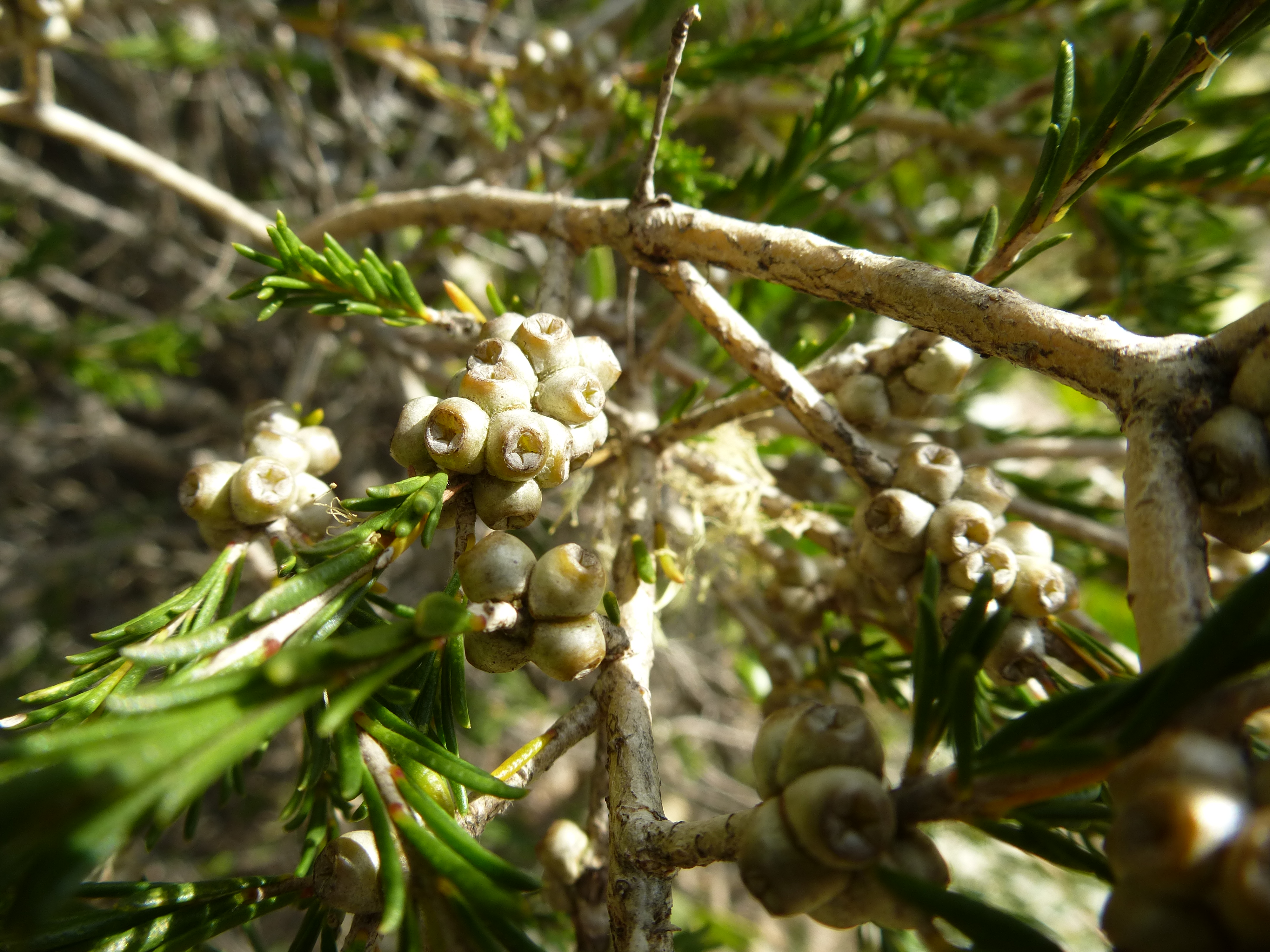 Melaleuca systena growing near Jurien Bay